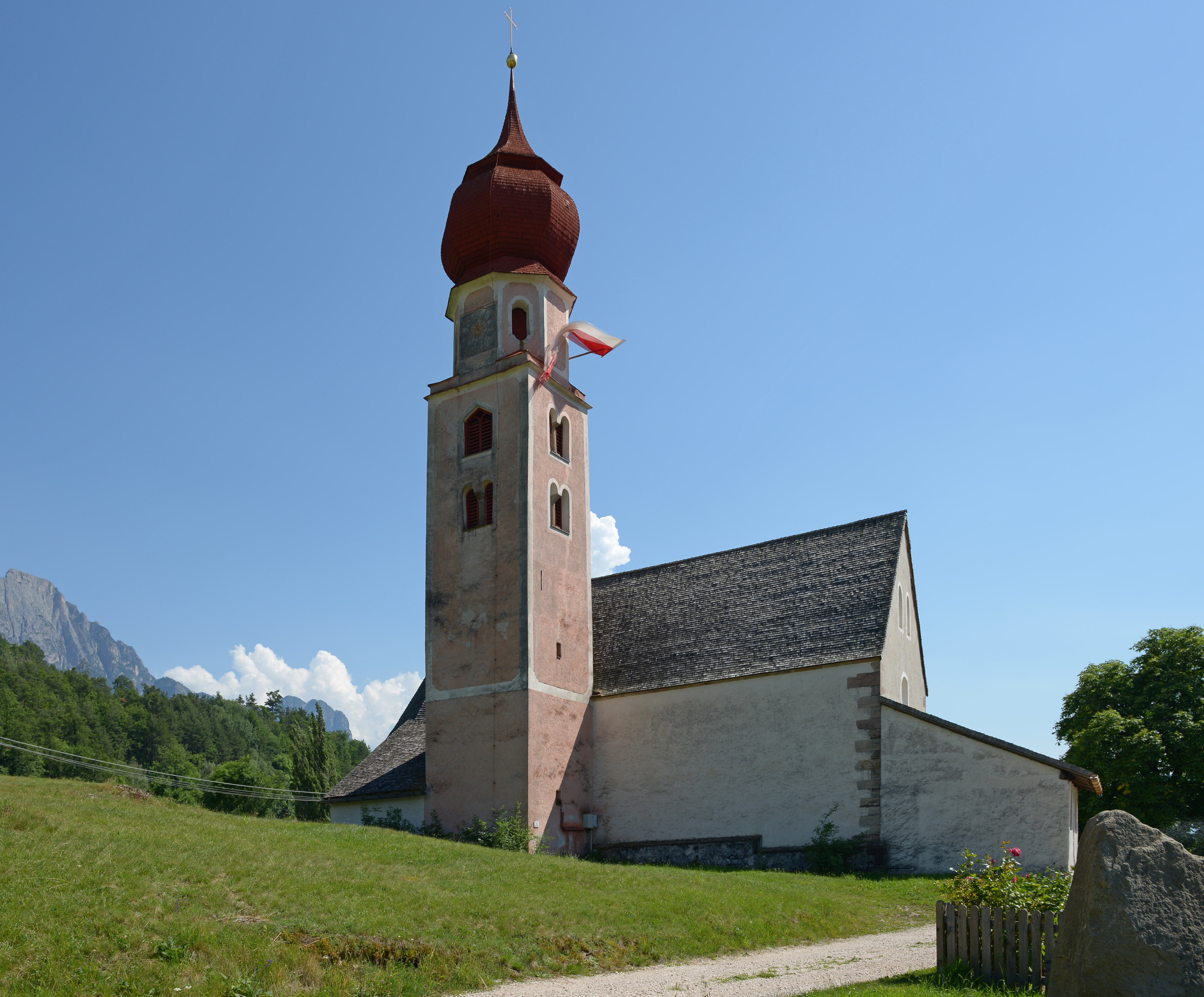 Saint Oswald church in Kastelruth